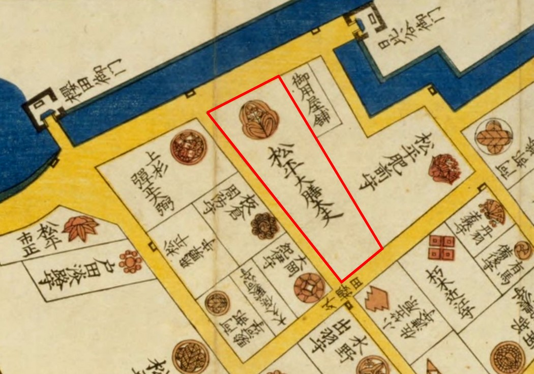 Môri residence of main line at Edo.